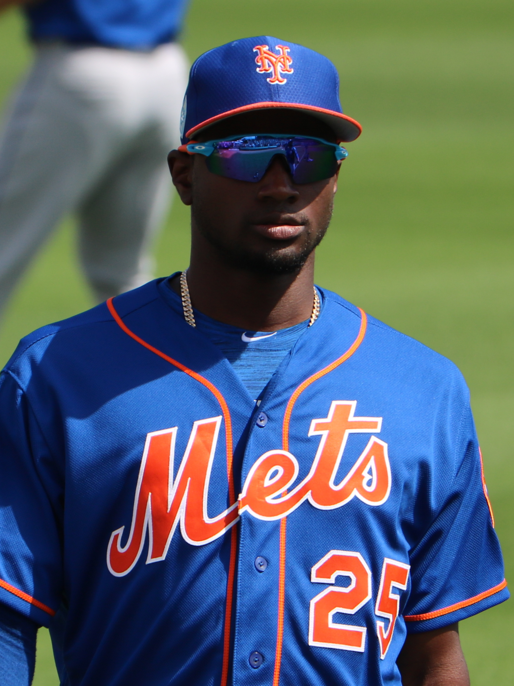 Adeiny Hechavarria in warmups, March 3, 2019